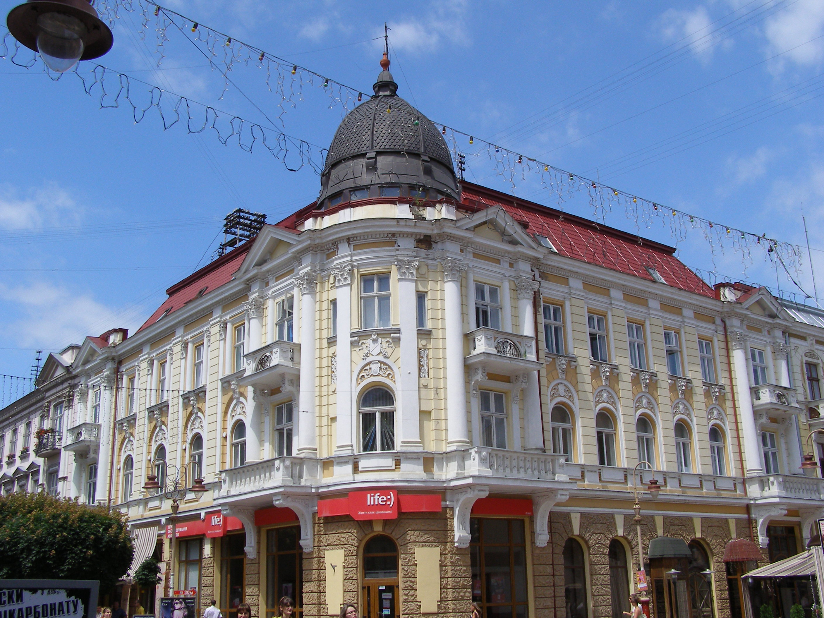 Building in Ivano-Frankivsk, western Ukraine